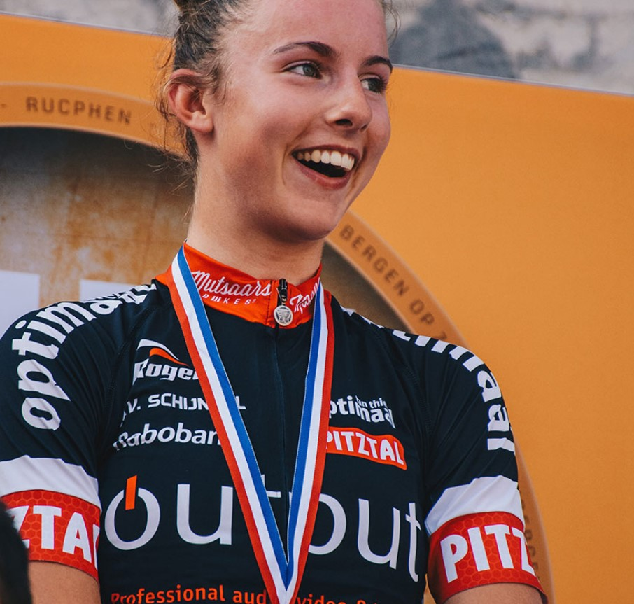 Femke NK TT